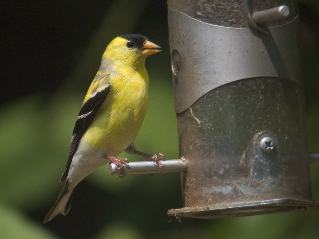 American Goldfinch Spinus tristis eating thistle seeds at a feeder, by Thomas O'Neil. Available online at